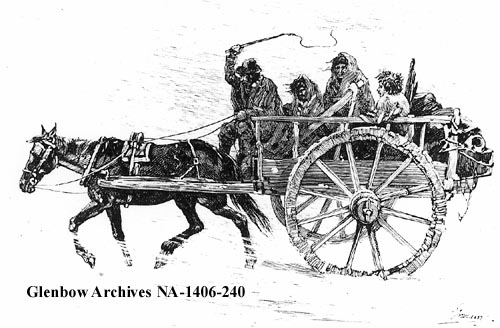 Metis in Red River cart, Saskatchewan, 1885